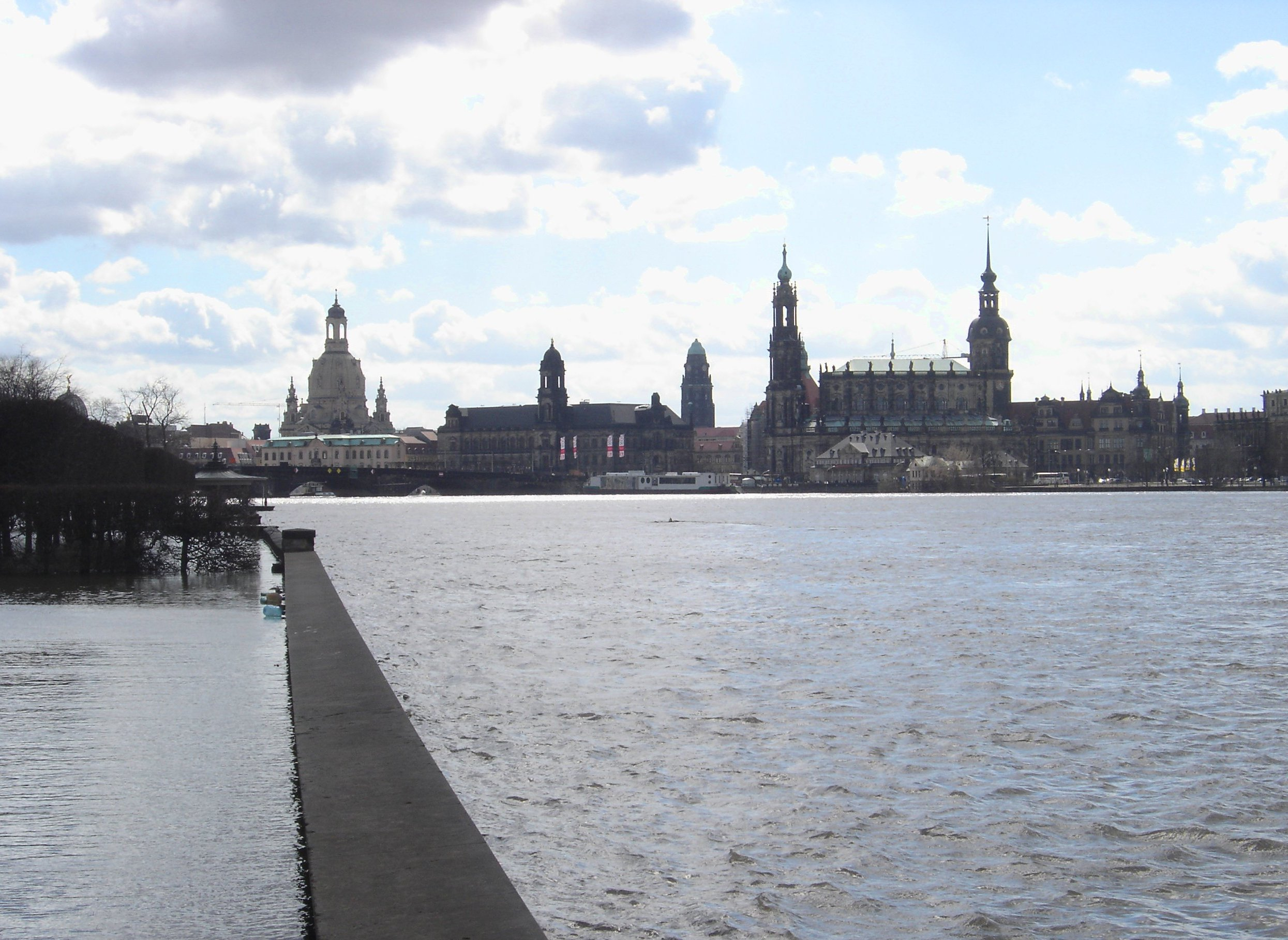 Elbe flood in Dresden — Images shows the historic town centre from a position near the "Japanisches Palais" (Japanese Palace). Level of water is about 7,40 metre, 5,40 metre above normal high. Same view at normality